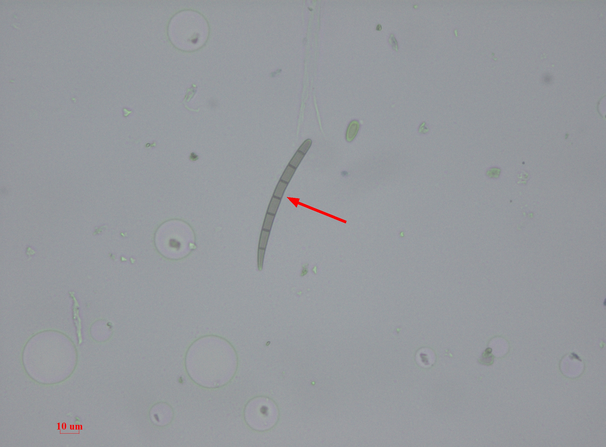 This fungal structure, known as paraphyses, was isolated and identified from an air sample collected via spore trap method.